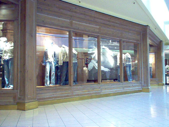 Author: User:Sam Weber Location: Altamonte Springs, FL, late 2004. The location was converted to the canoe store design in August 2005.